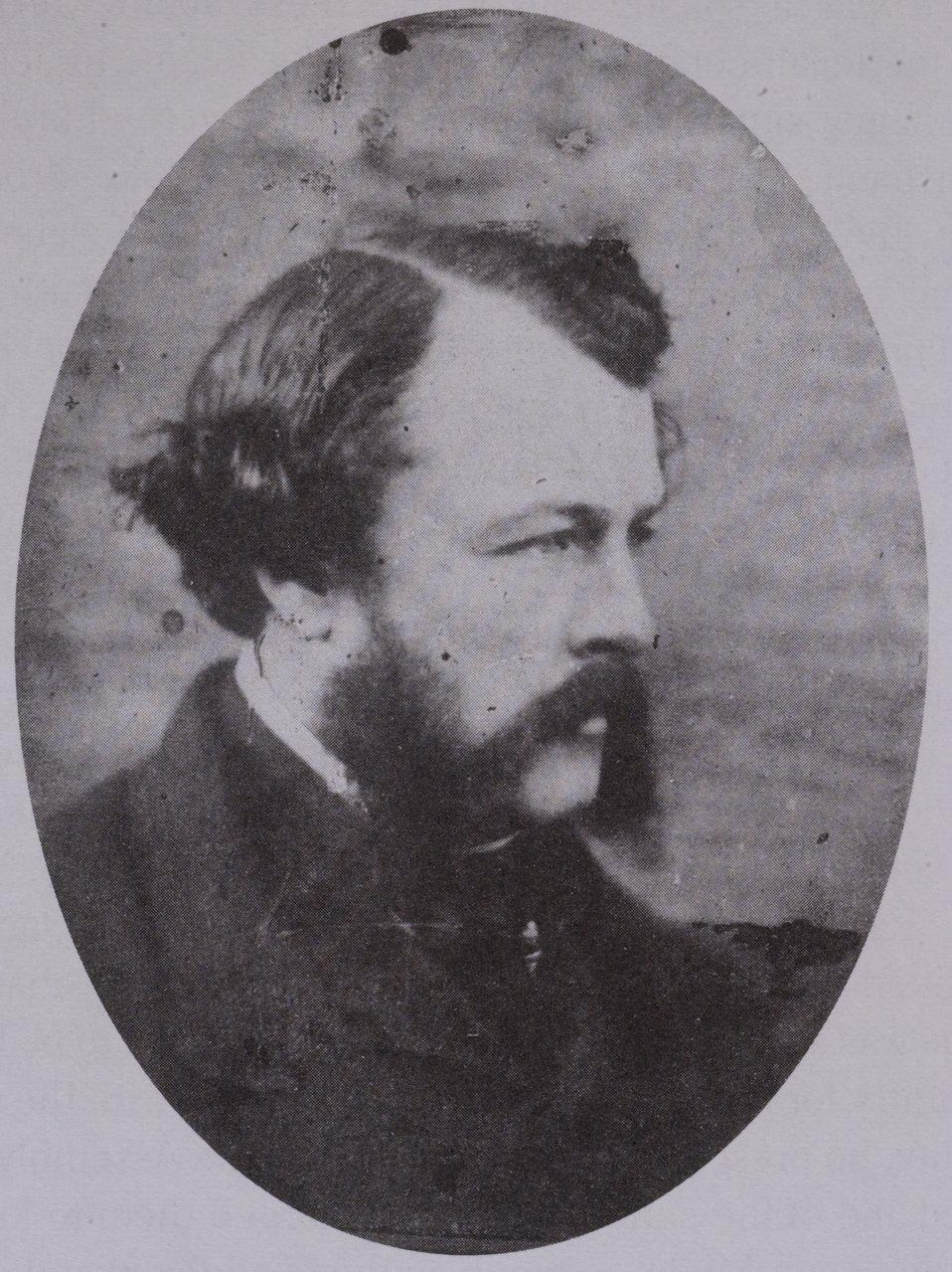 John Brooke ,Rajah Mudah of Sarawak (1823 - 1 December 1868)